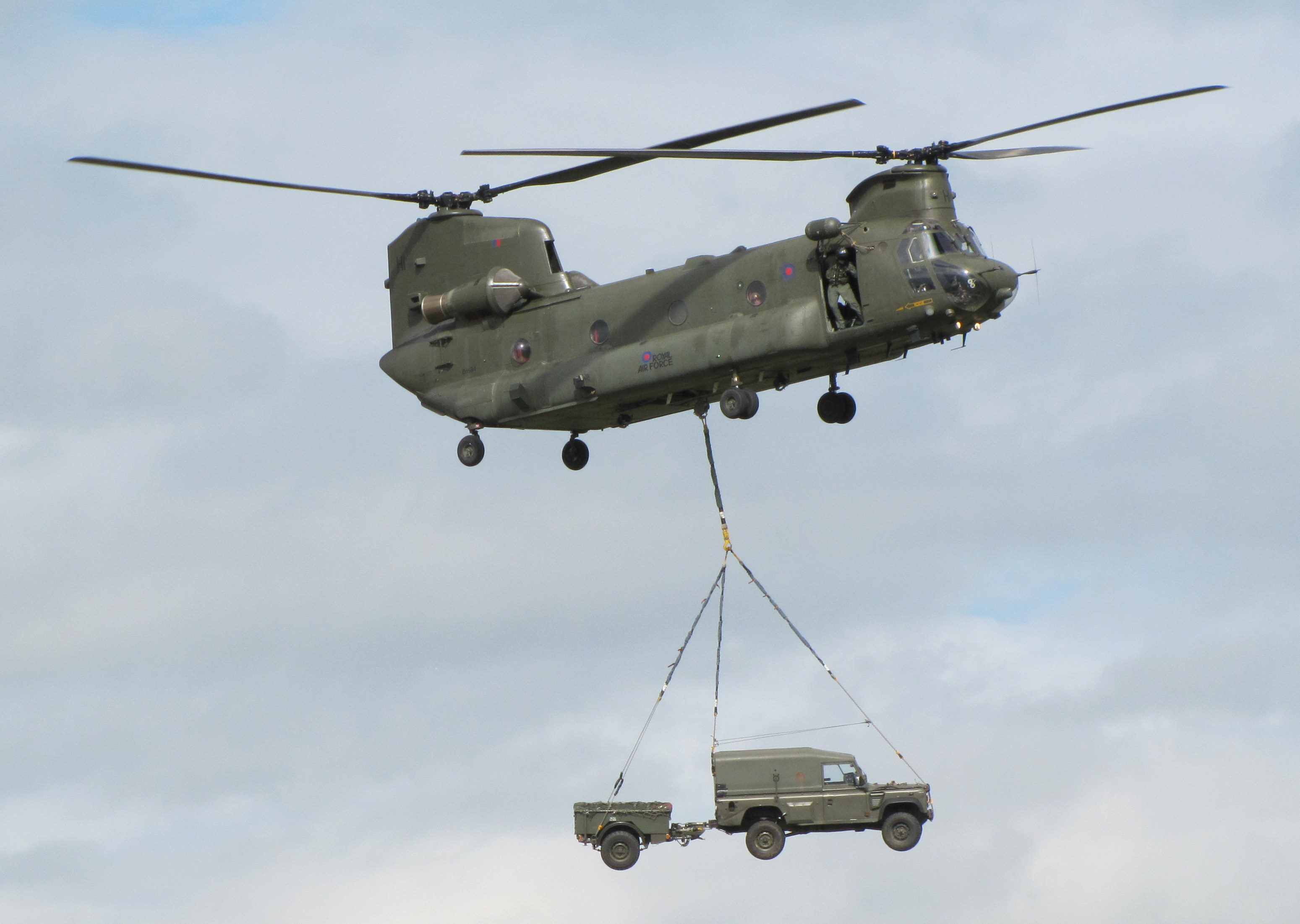 RAF Chinook displays at RAF Waddington